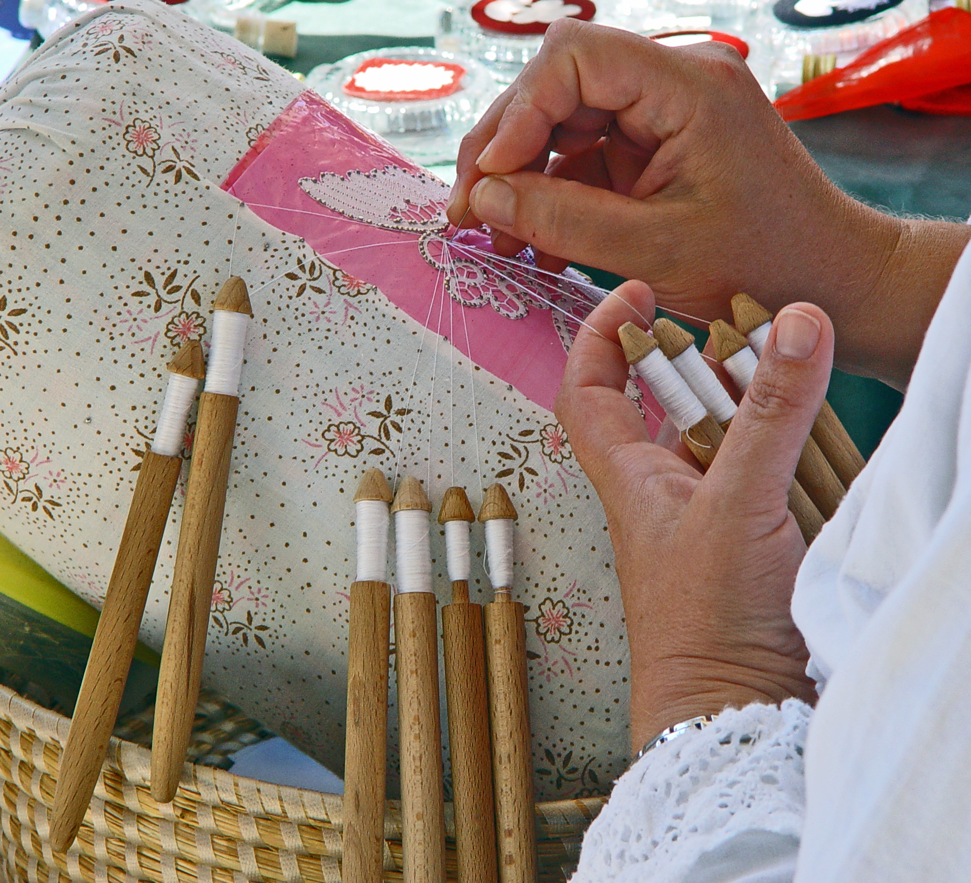 Making bobbin lace in Dubrovnik